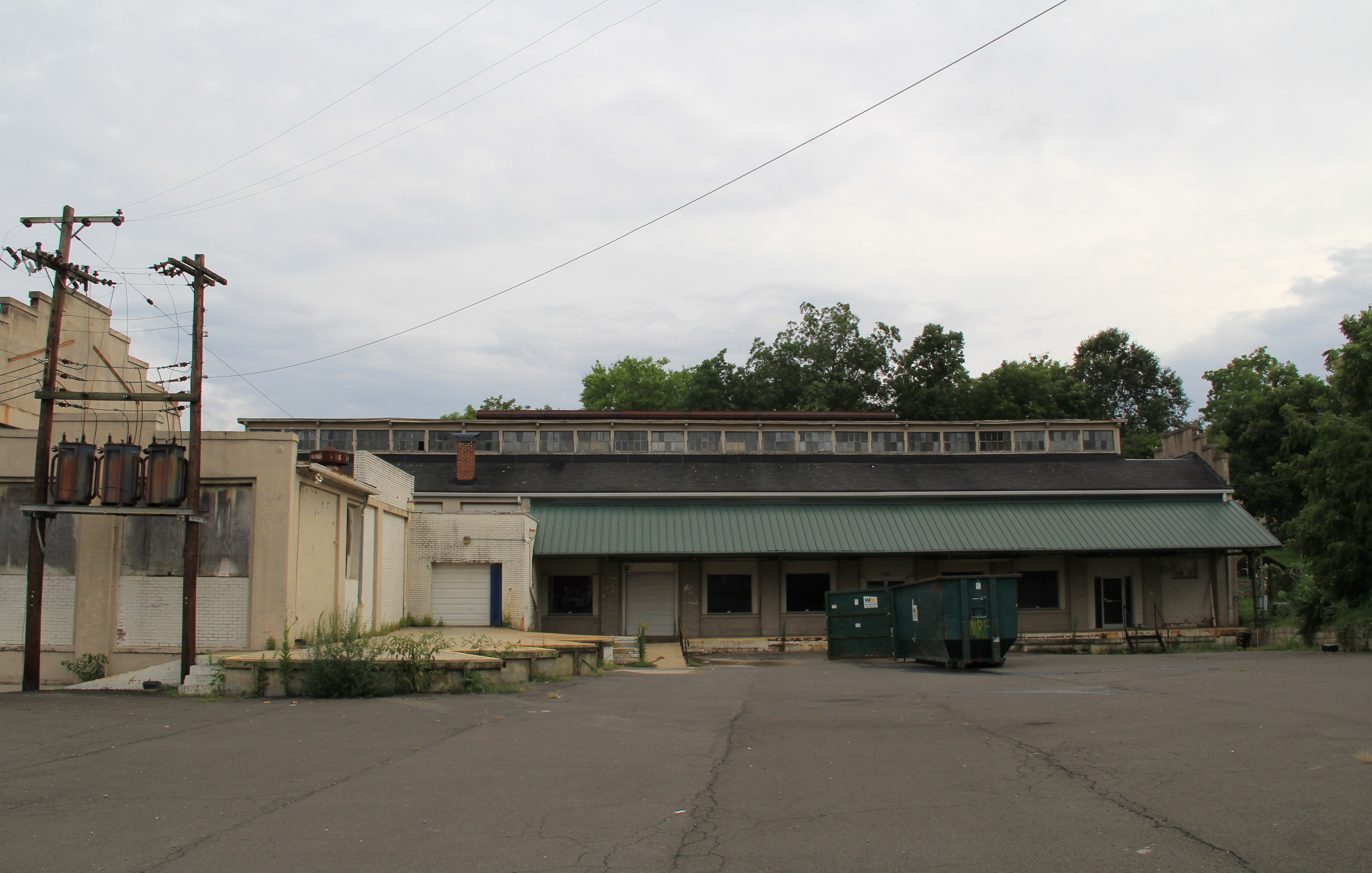 Durham Hoisery Mills Dye House - back section. Durham, North Carolina. Photo taken as part of Wikimedia Summer of Monuments camping trip 2014. This image was uploaded as part of Wikipedia Summer of Monuments. English |+/−